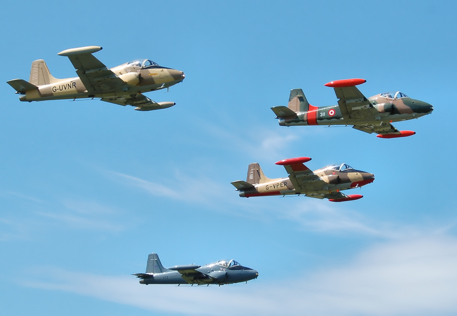 The four BAC Strikemasters of Team Viper displaying at the Cotswold Air Show at Cotswold Airport, Kemble, Gloucestershire, England. G-UVNR is a BAC 167 Strikemaster Mk87, ex-Botswana Air Force (serial OJ-10), first used by the Kenyan Air Force, built 1971. G-SOAF (all grey) is a BAC 167 Strikemaster Mk82A, ex-Sultan of Oman Air Force (serial 425 in Arabic on the fuselage), built 1986. This is the last Strikemaster ever built. G-VPER is a BAC 167 Strikemaster Mk80A, ex-royal Saudi Air Force (serial 1130), build date I do not know. G-MXPH (red rear fuselage stripe) is a BAC 167 Strikemaster Mk84, ex-Royal Singapore Air Force (serial 311), build date I do not know. Photographed by Adrian Pingstone in June 2010 and released to the public domain.